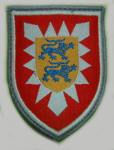 16th Armored Grenadiers Brigade